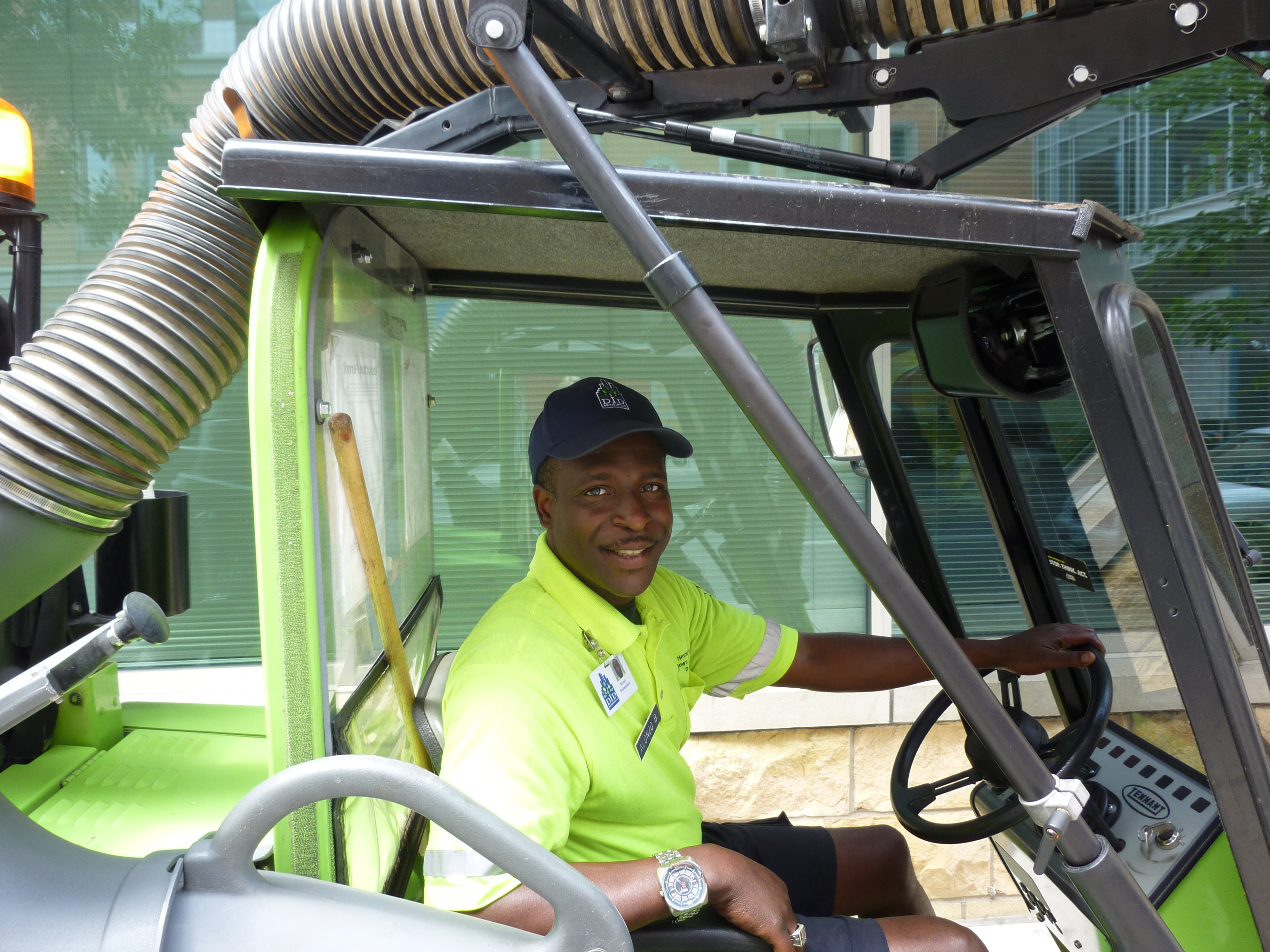 Ambassador for the Minneapolis Downtown Improvement District